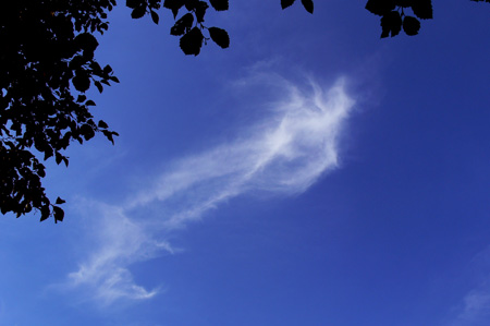 Description: Sylph, Sylphe; Photographer: Andreas Witschi, vuePure PHOTO WITSCHI